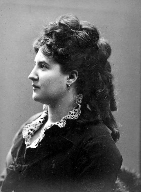 Judith Gautier, cropped, histogram fix, minor retouch